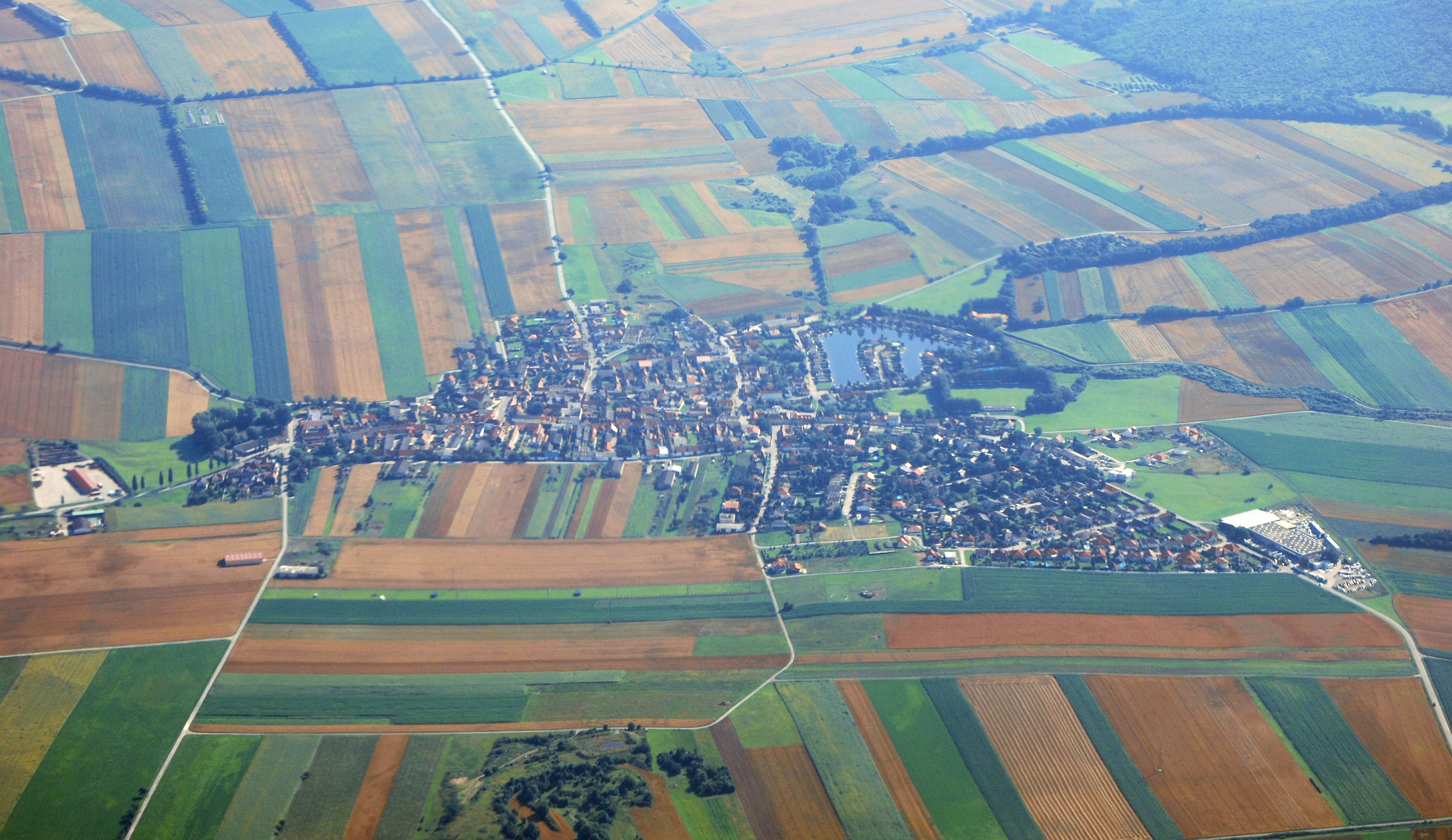 Au am Leithaberge from W